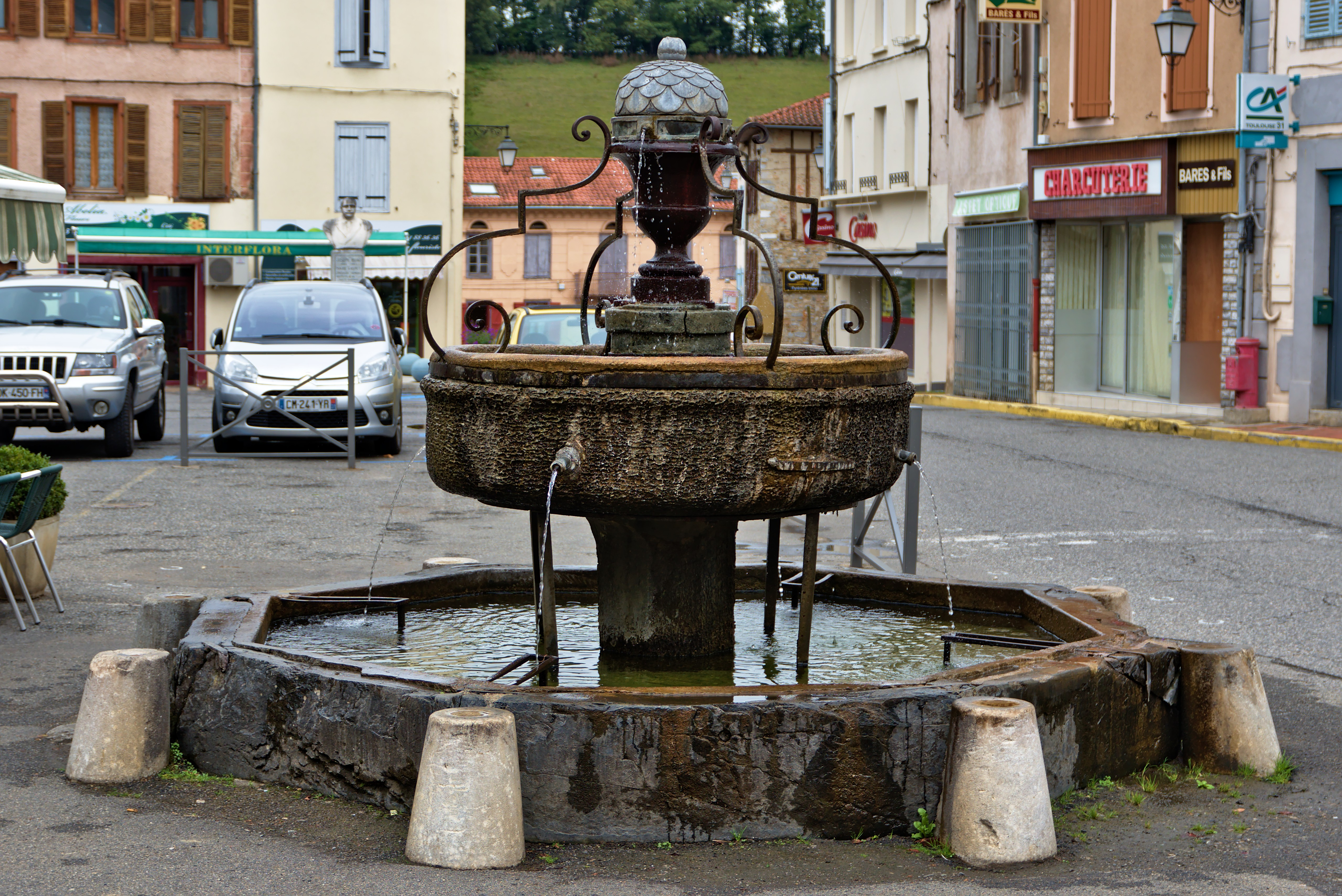 Fountain of Aspet, Haute-Garonne, France.